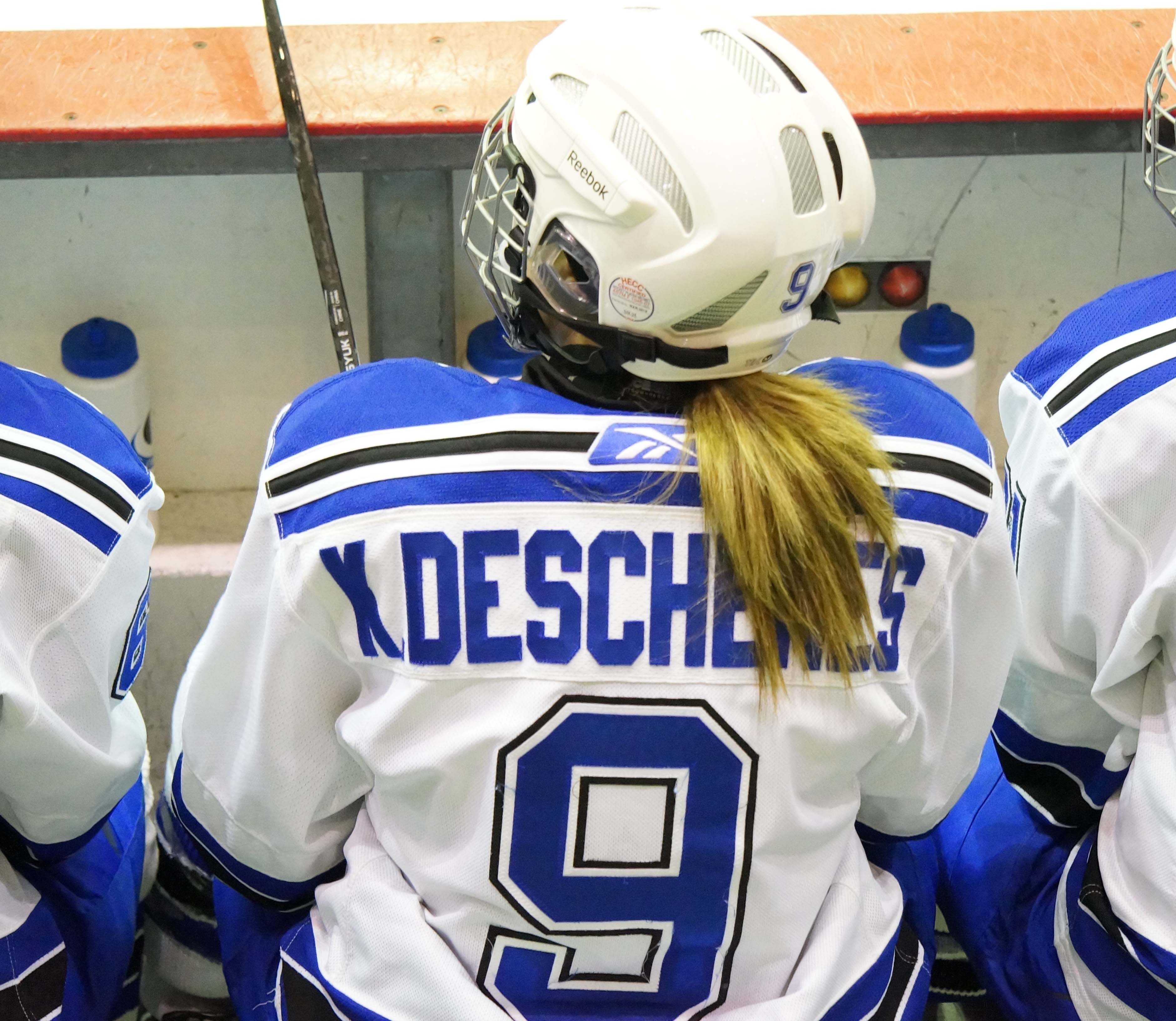 Kim Deschenes Forward for Montreal Carabins